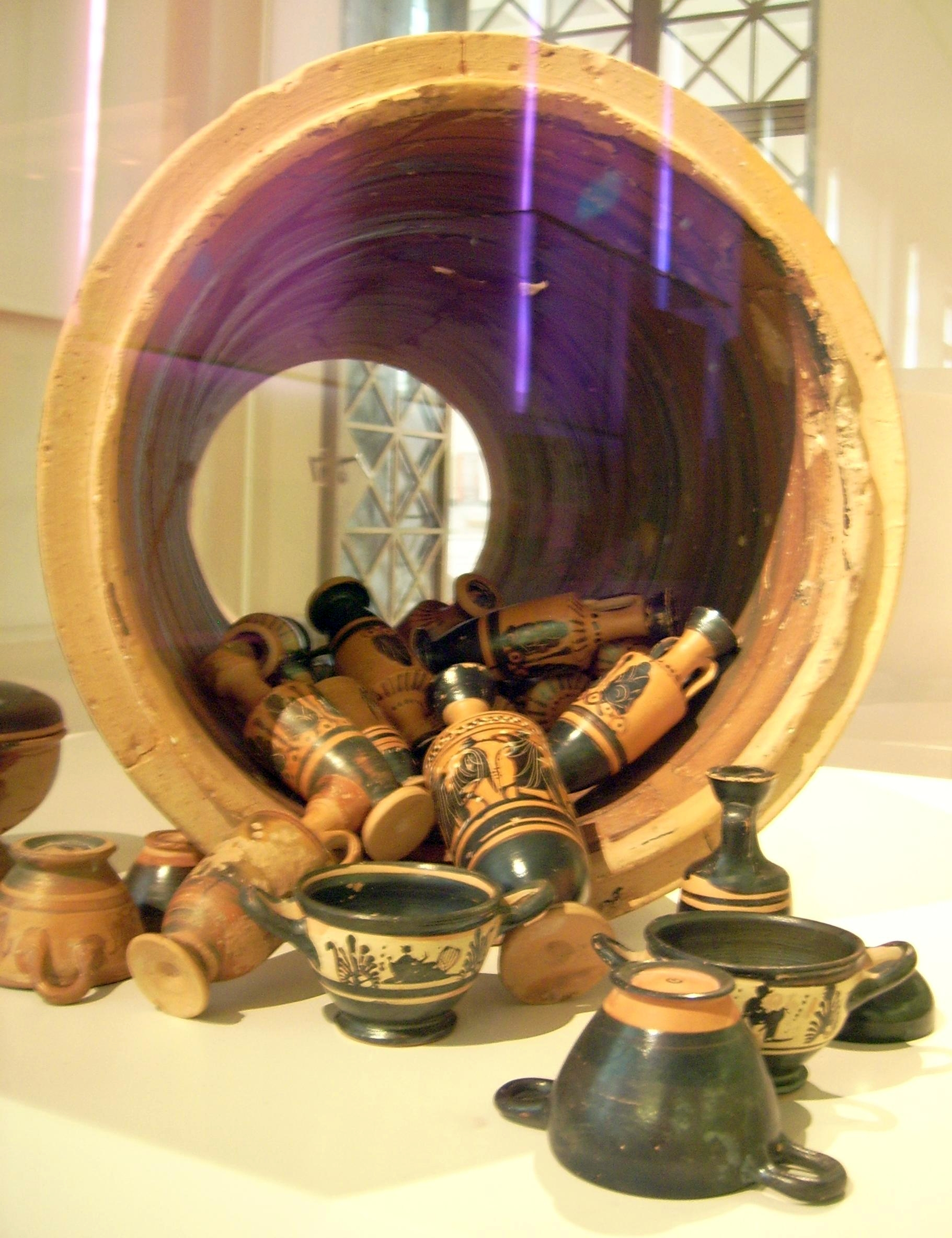 Child's burial in a clay pipe of the type used for aquaducts; with attic black-figure vases; from the Kerameikos (1891/92); 5th c. BC.; National Archeological Museum Athens